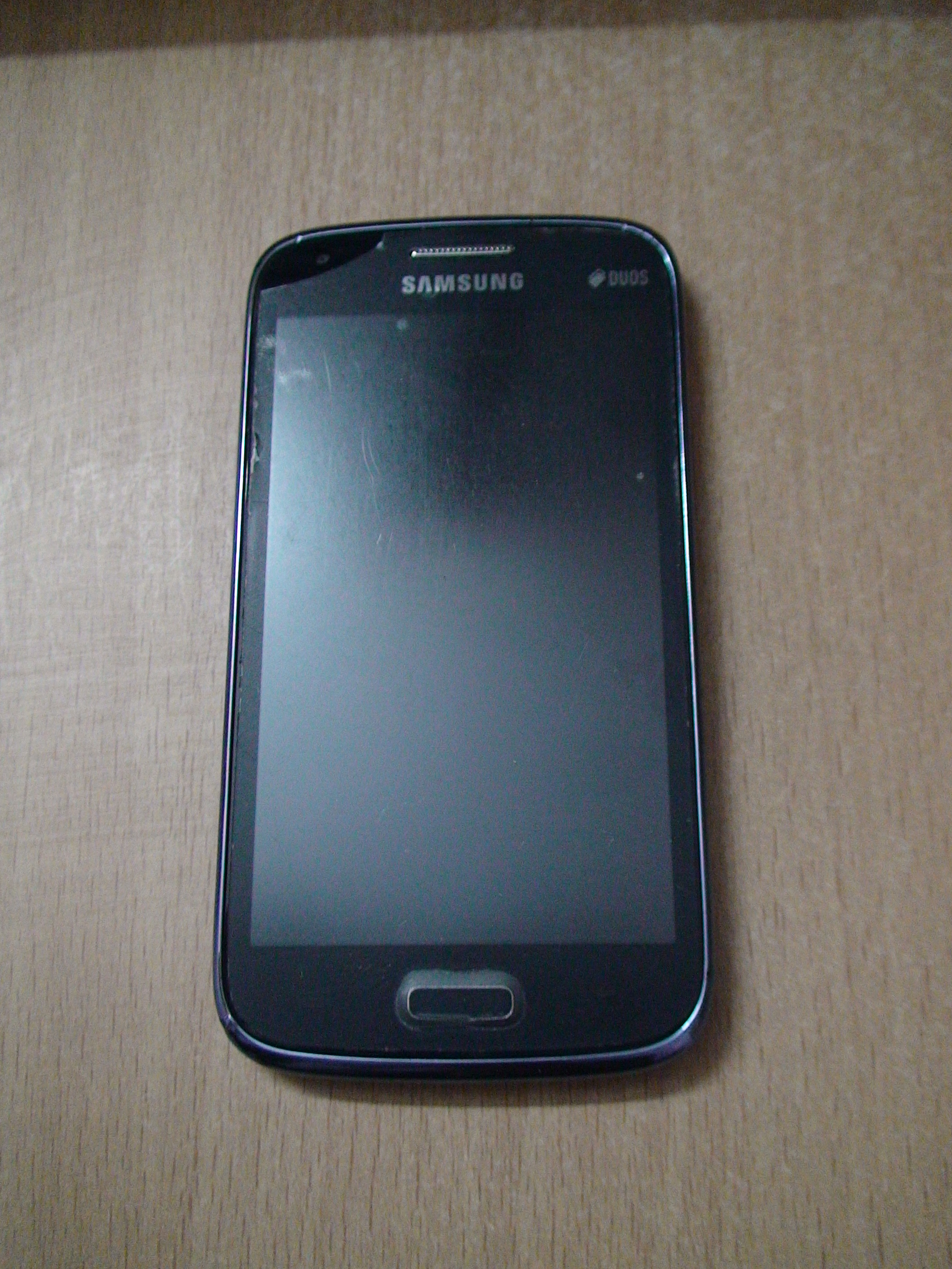 Samsung Galaxy Core GT-I8262